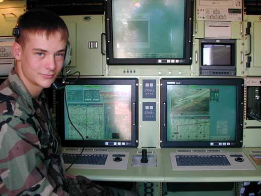 This is a picture of me doing my job flying the shadow 200 uav